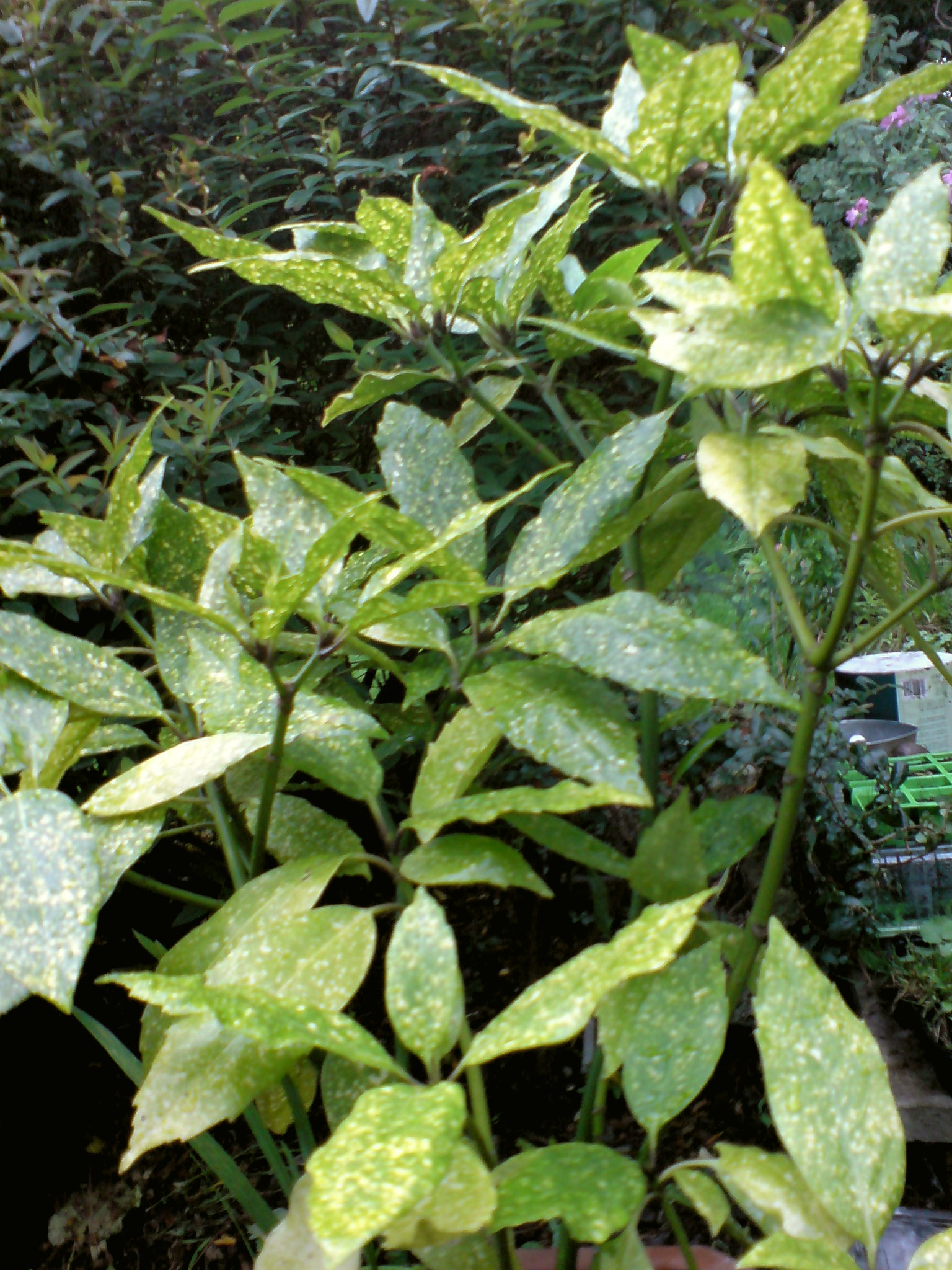 Spotted Laurel Female